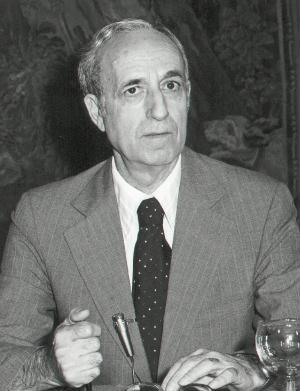 Josep Ferrater Mora´s portrait